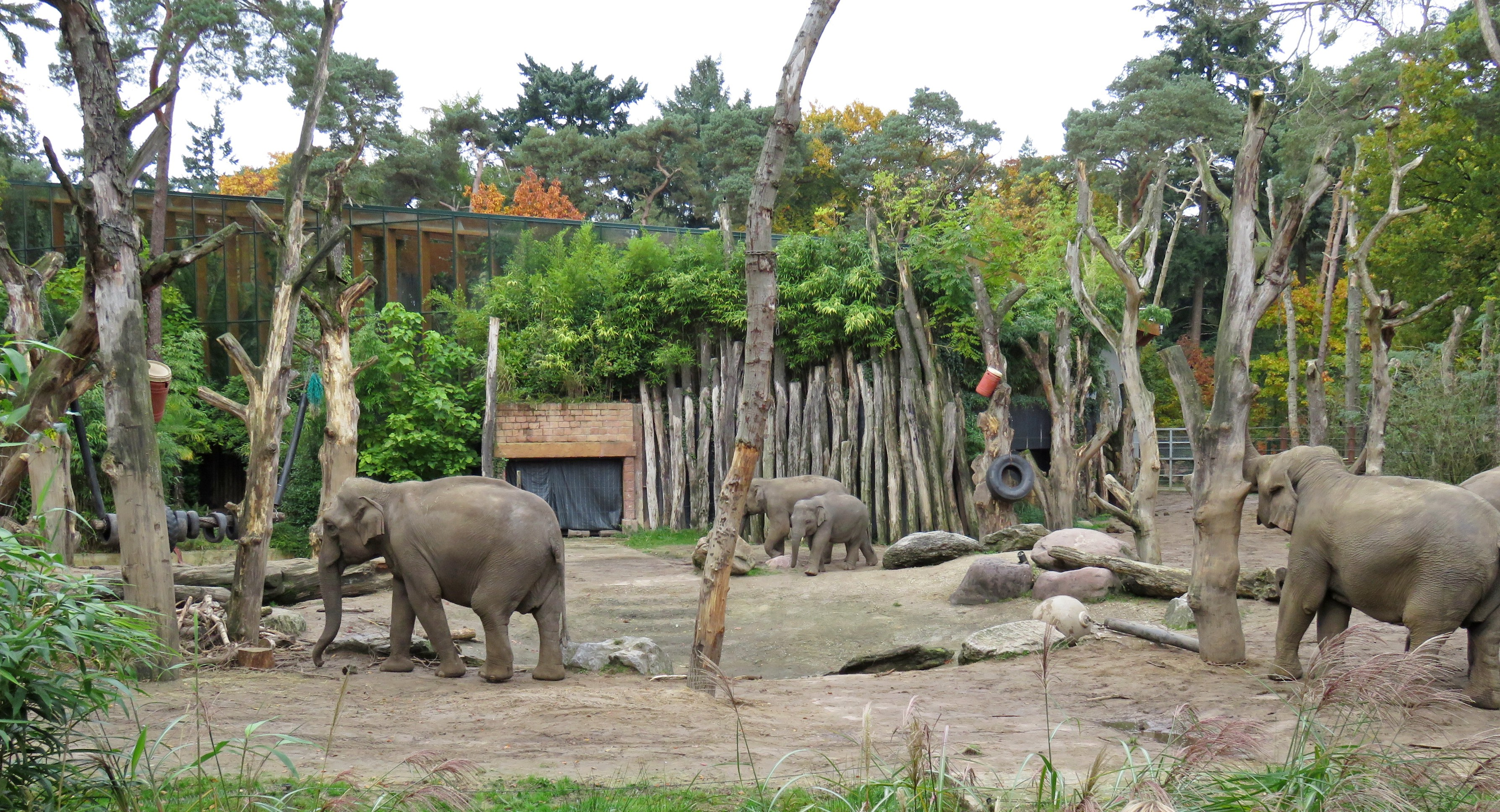 Outdoor enclosure of Zoo Amersfoort for the elephants. On the picture four elephants, from left to right: Indra, Kina, Kyan and Khine War War.